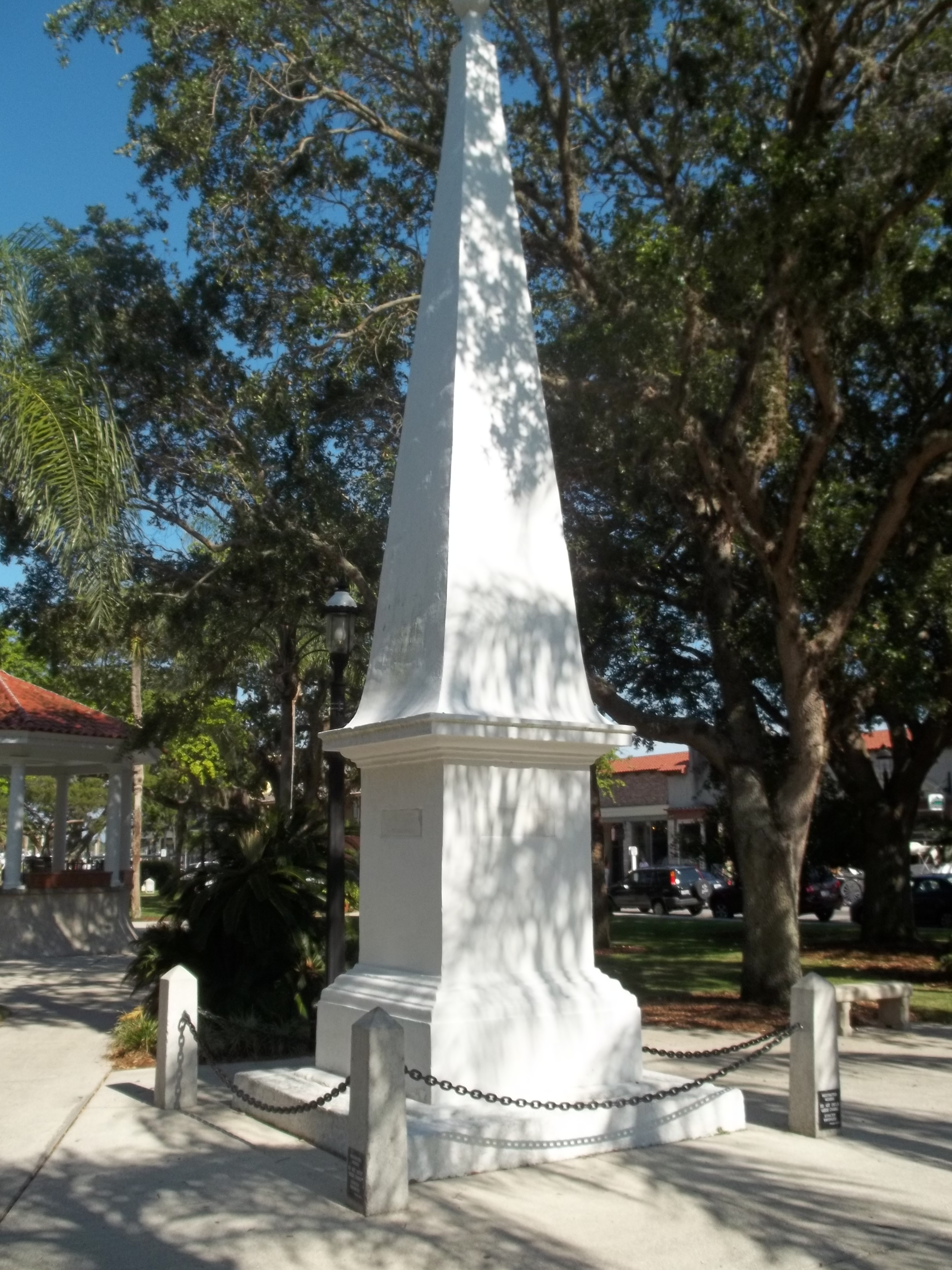 St. Augustine, Florida: St. Augustine Town Plan Historic District: Plaza De La Constitucion: 1812 Spanish Constitution Memorial